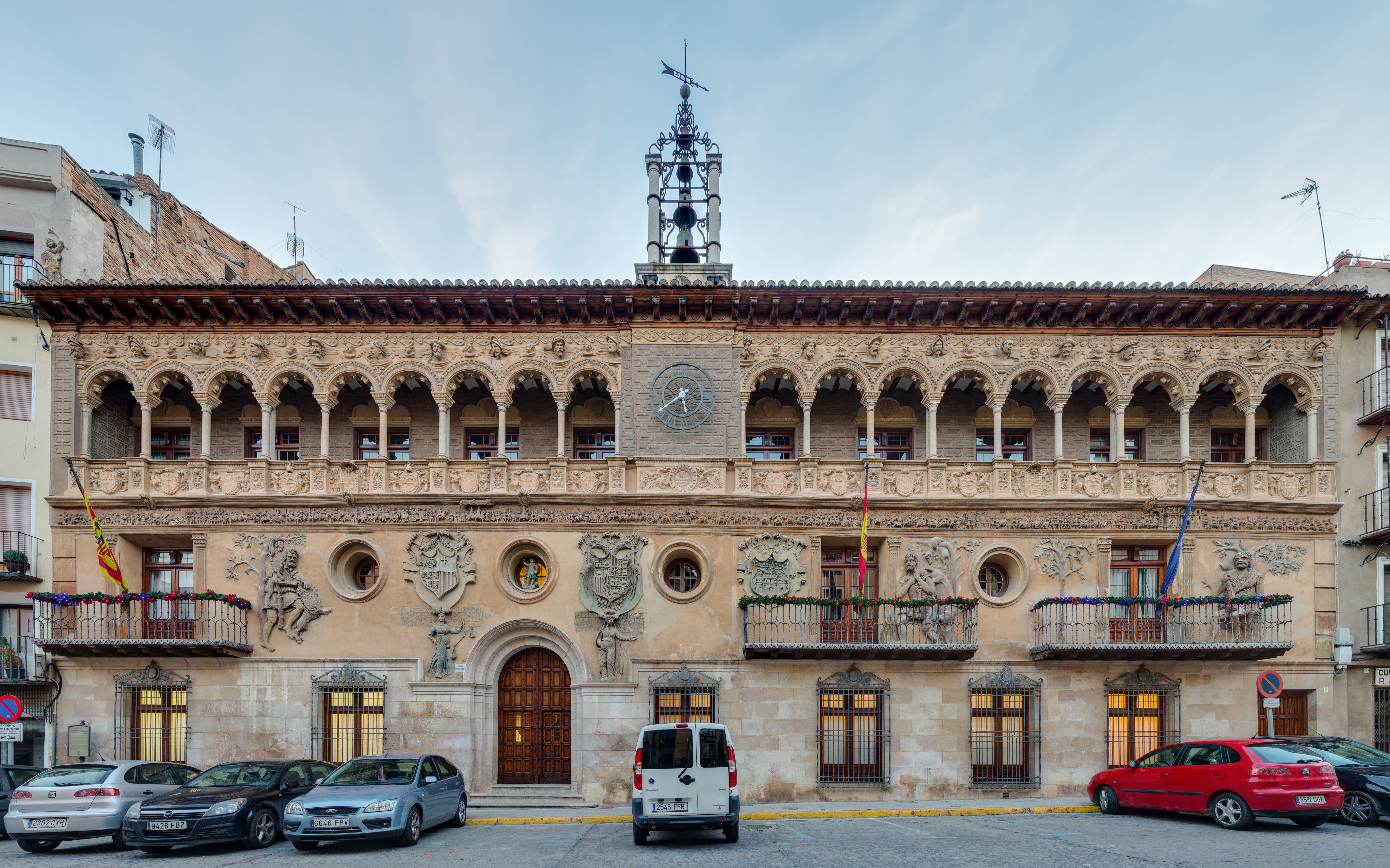 Town hall of Tarazona, Zaragoza, Spain